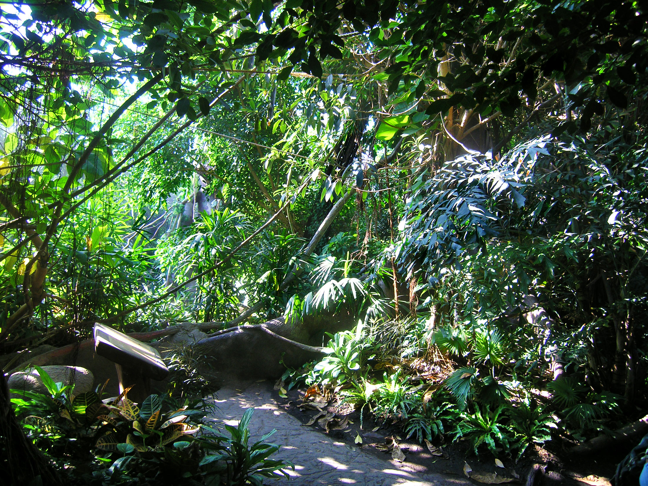 Plants in the pavilion of Indonesian jungle in Zoo Prague